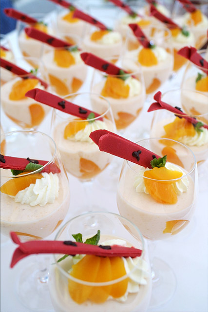 Mousse decorated with peaches, whipped cream, and mint leaf.